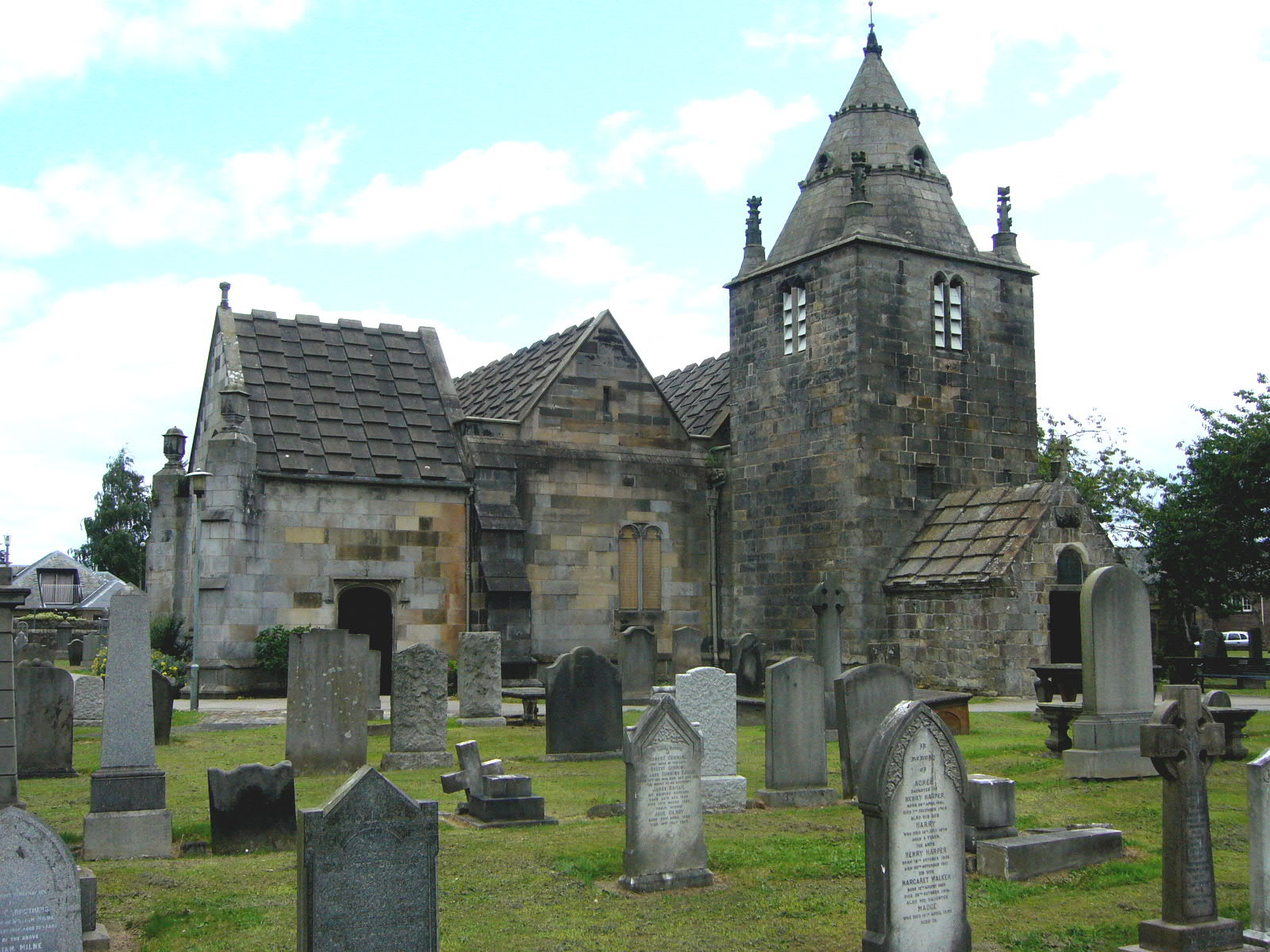 Corstorphine Parish Kirk